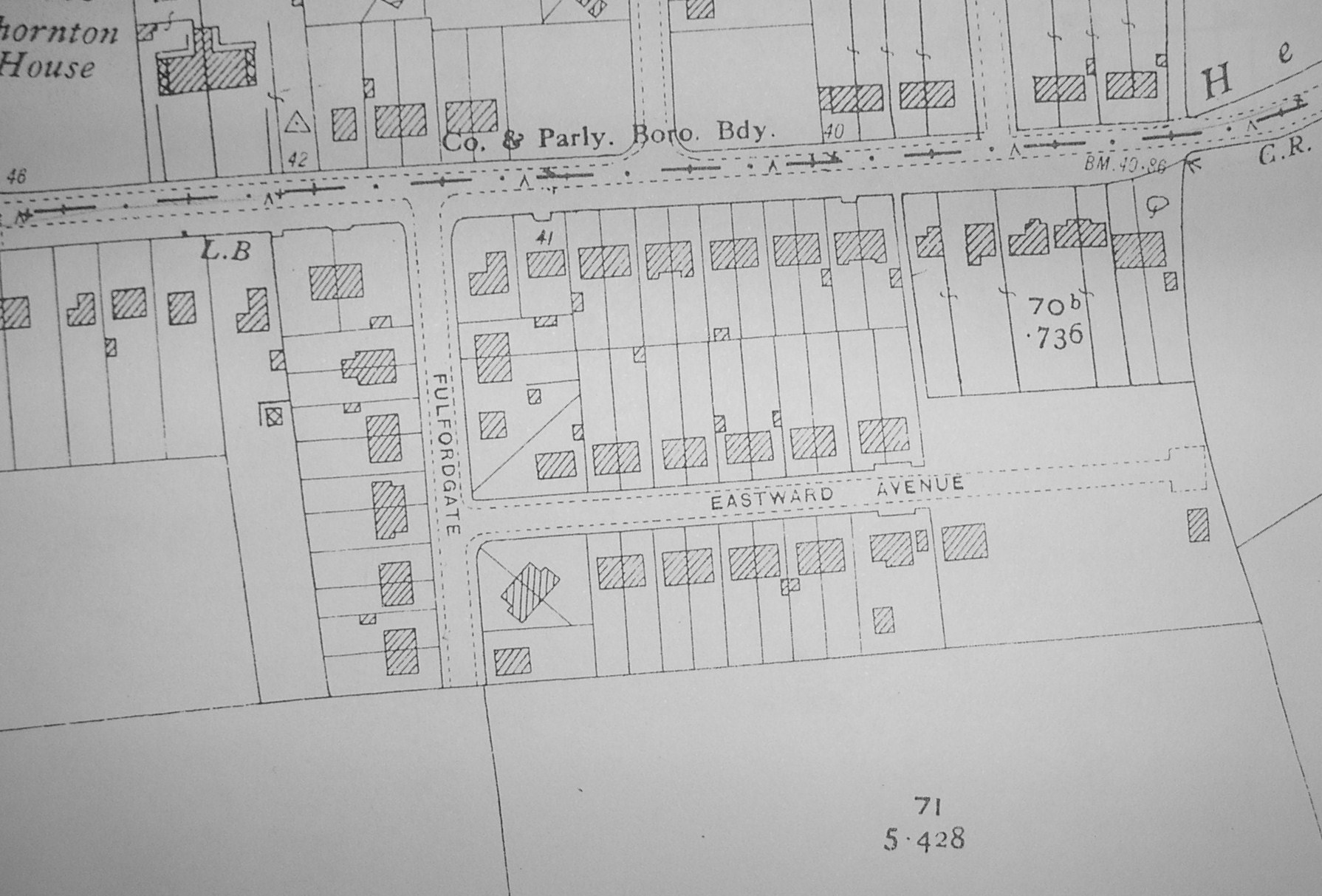 An Ordnance Survey map from 1936 that shows housing built on the site previously occupied by Fulfordgate, the former home ground of York City F.C. The road running east-west near the top of the map is Heslington Lane.